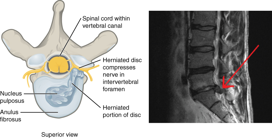 Anatomy & Physiology, Connexions Web site. Jun 19, 2013.